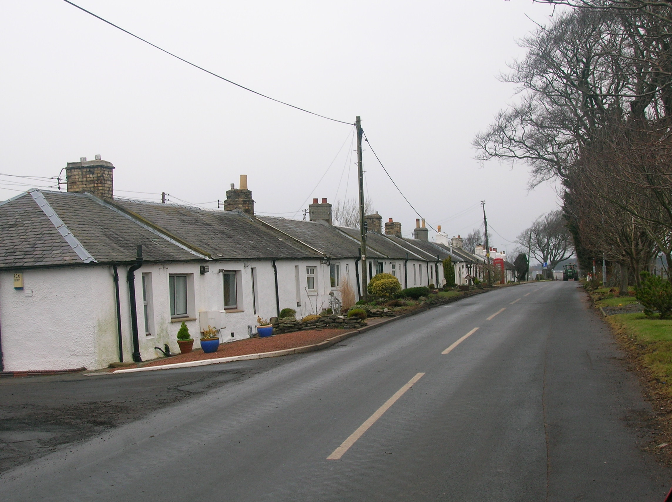 The miners and later brickworkers row at Perceton in North Ayrshire. 2007.